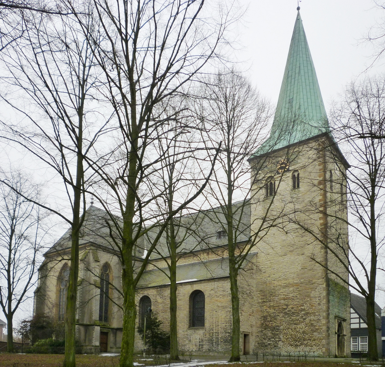 St. Jakobus chirch in Ennigerloh